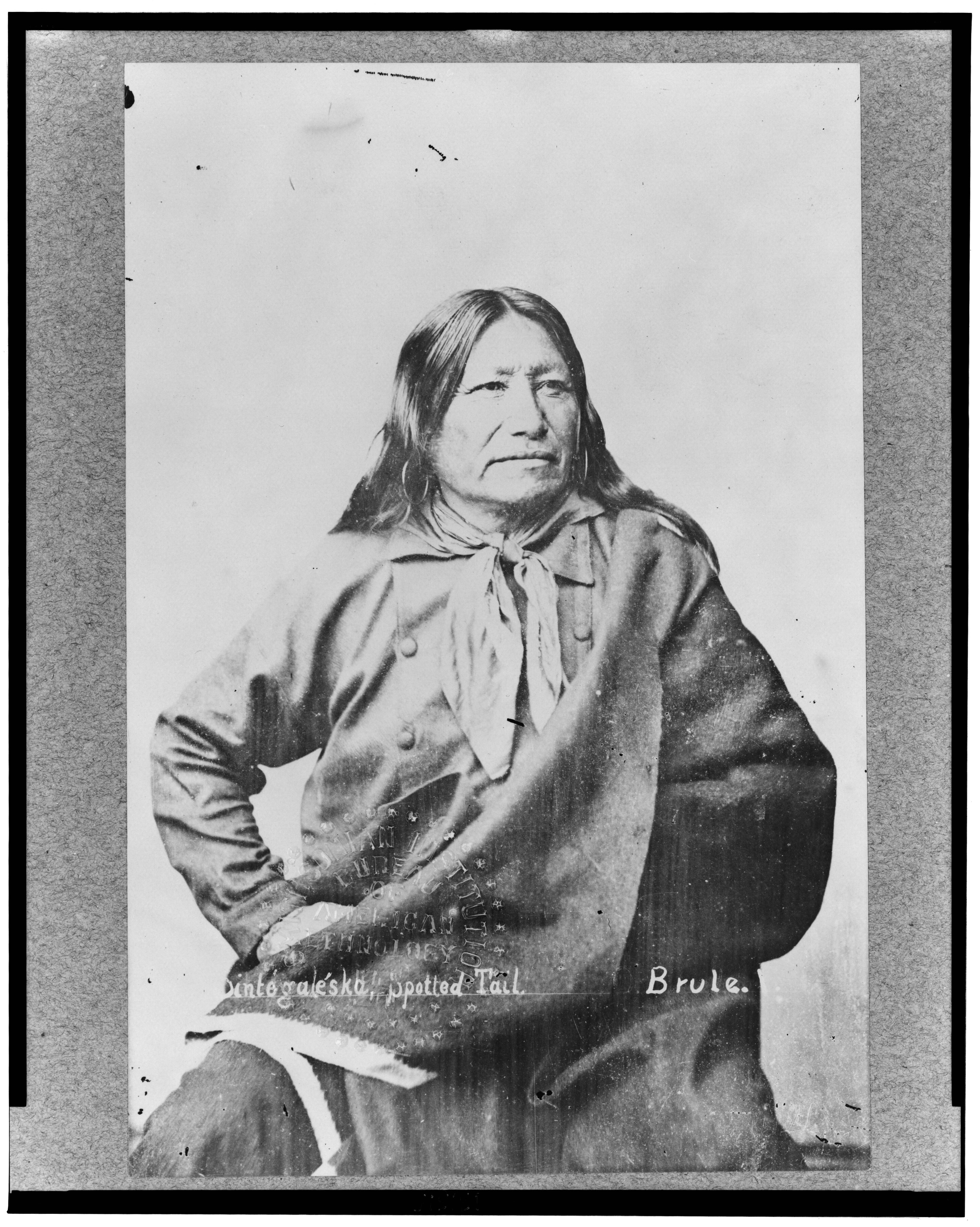 Spotted Tail, Lakota Brule Chief before 1881, half-length portrait, seated, facing slightly right. Blind stamp: Smithsonian Institution Bureau of Ethnology, photograph by Henry Ulke.[1]